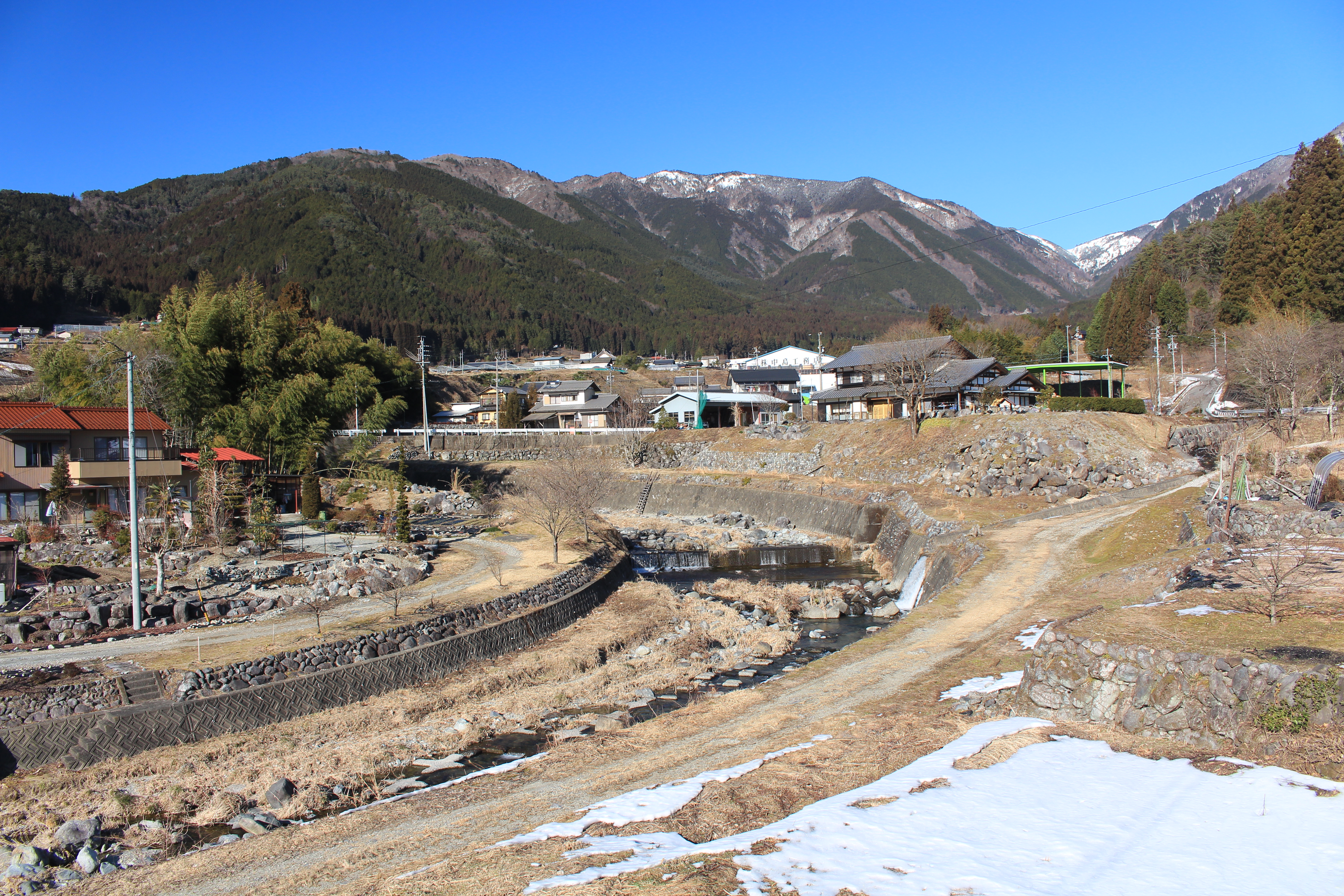 Mount Shirakusa and Takehara River seen from Mimayano, Gero, Gifu prefecture, Japan.